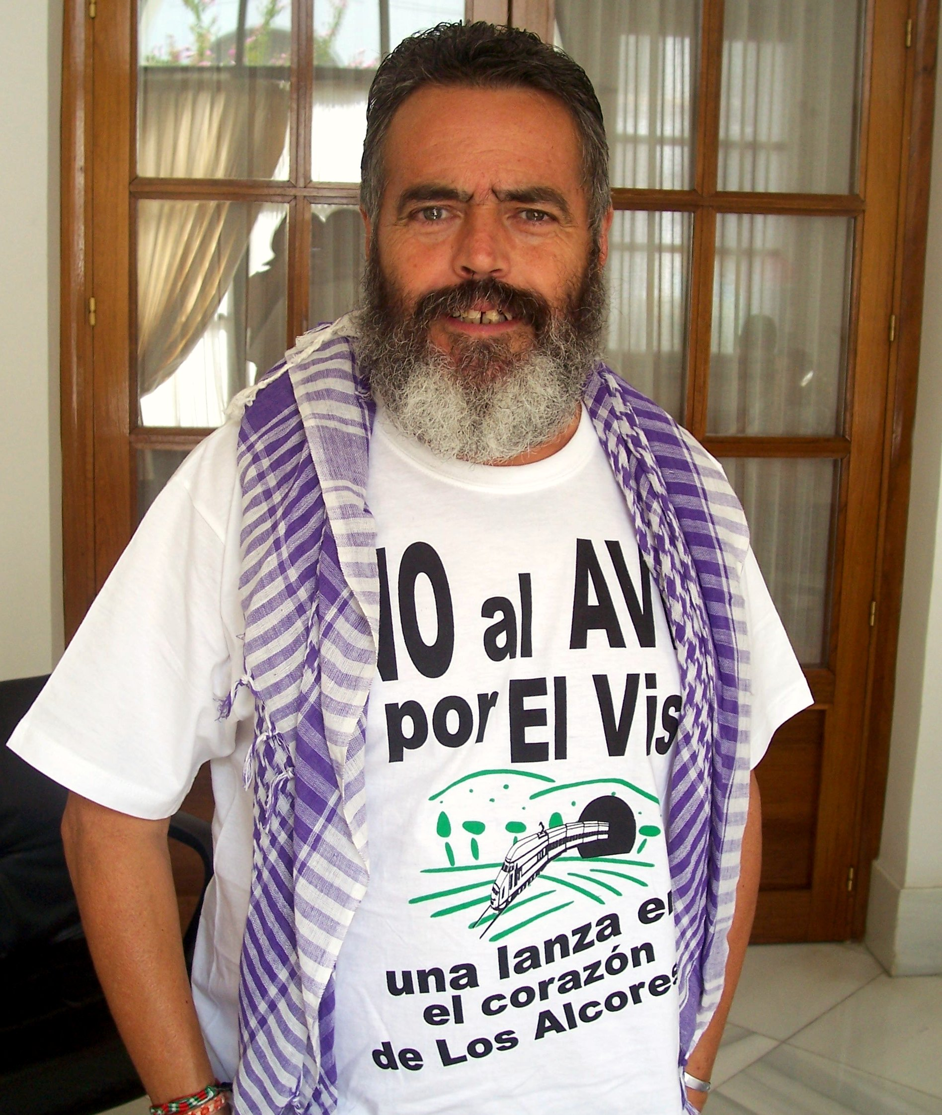 Juan Manuel Sánchez Gordillo, dirigente del Colectivo de Unidad de los Trabajadores - Bloque Andaluz de Izquierdas (CUT-BAI), Sindicato de Obreros del Campo (SOC) e Izquierda Unida (IU).